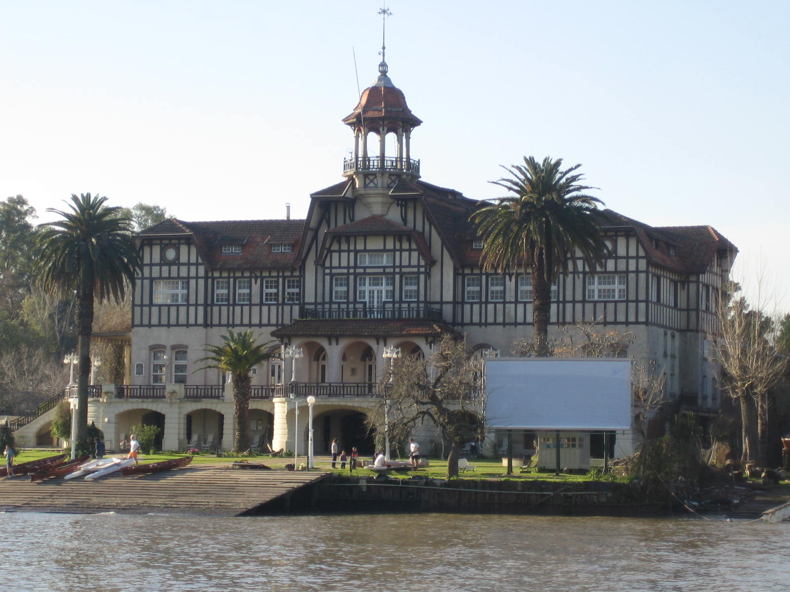 Club de Regatas La Marina - El Tigre - Buenos Aires - Argentina